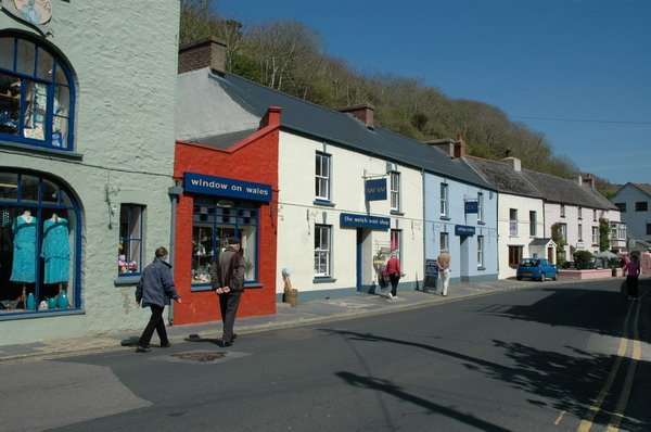 Solva. Solva Main Street